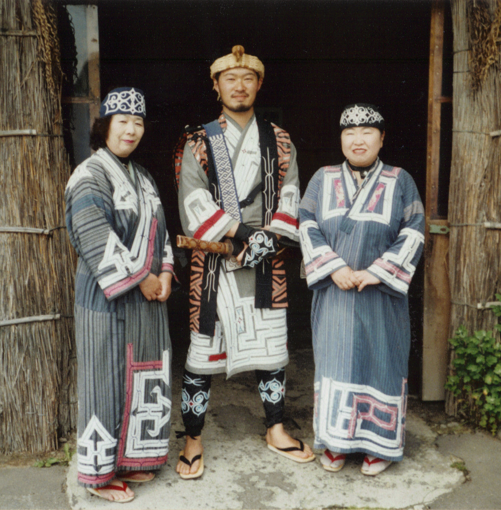 Ainus wearing their traditional clothes, Ainu Museum, City of Shiraoi, Hokkaido, Japan.